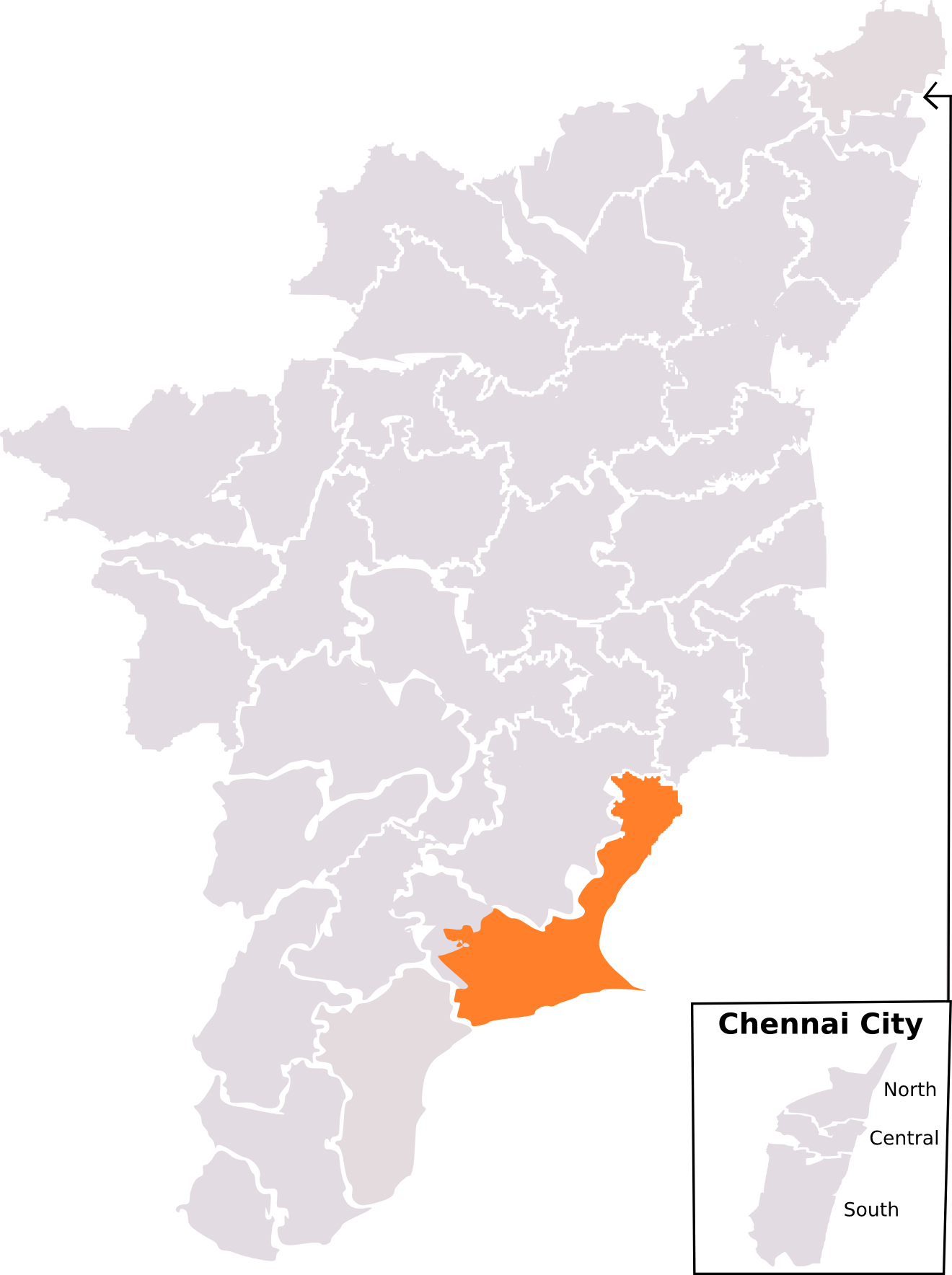 Lok Sabha Election map for Tamil Nadu. Map is drawn using Inkscape and is based on ECI website.